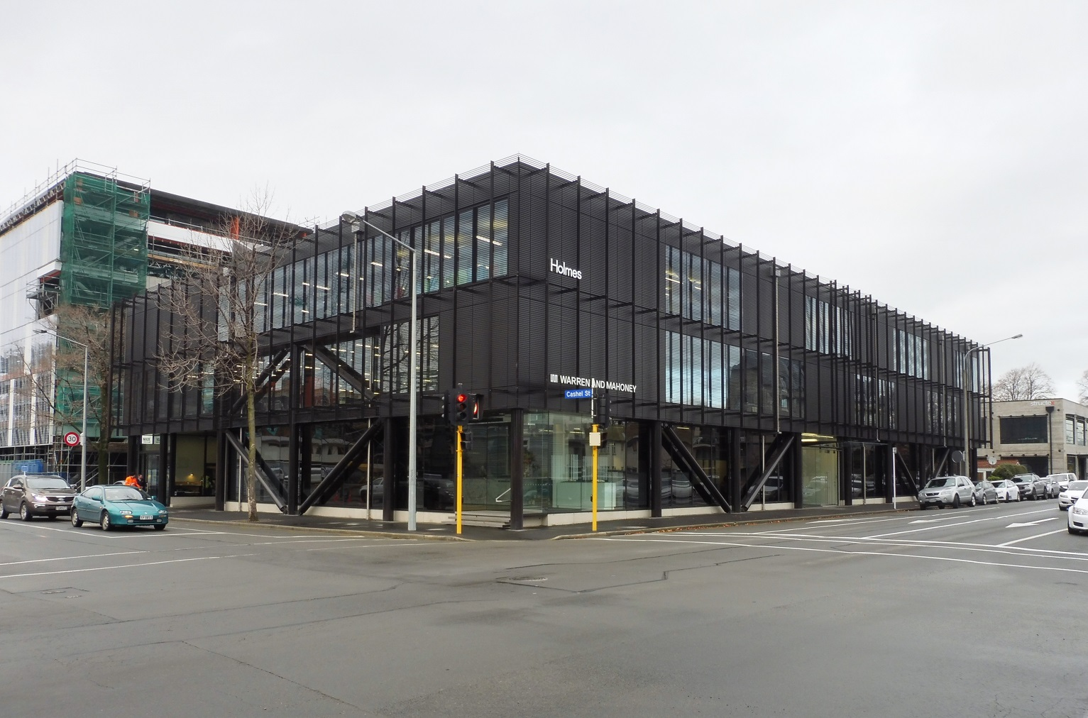 Headquarters of New Zealand architectural firm Warren and Mahoney, and Christchurch office of New Zealand engineering consultancy firm Holmes in central Christchurch in 2016.